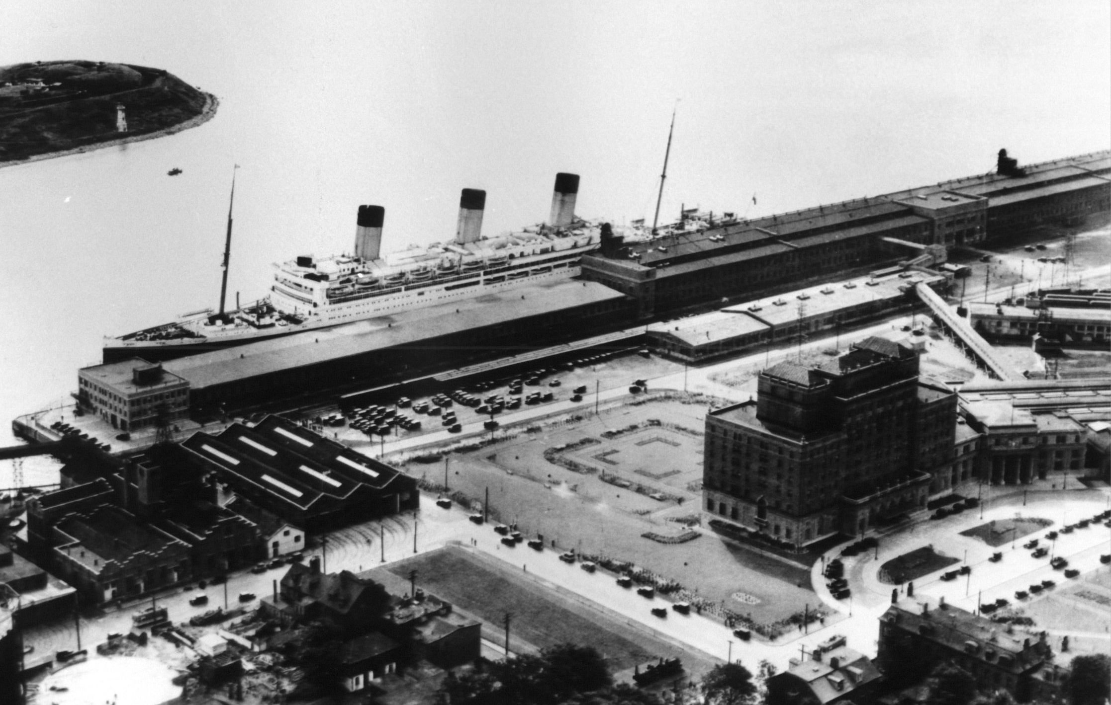 RMS Majestic alongside the Nova Scotian Hotel at Halifax, Nova Scotia, Canada in 1934. Pier 20 is to the left and Pier 21 to the right.